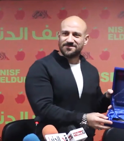 Ahmed Mekky, Egyptian Actor and rapper, after Alahram Press conference Dec 2017